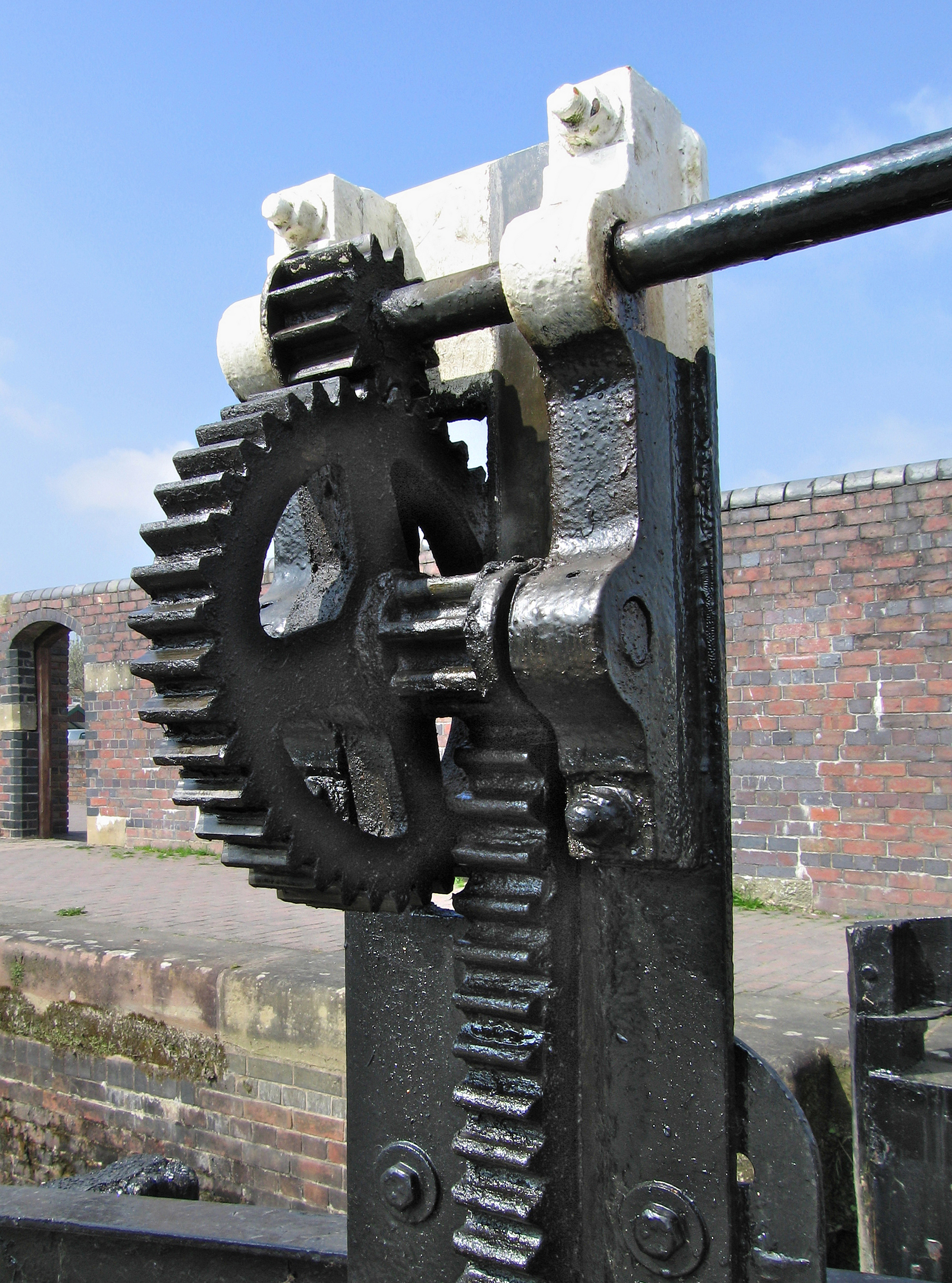 Lock gate cogs, Montgomery Canal This rack and pinion system is operated by a Windlass (a handle that canal boat users have with them). At the moment some parts of the Montgomery Canal are not navigable.